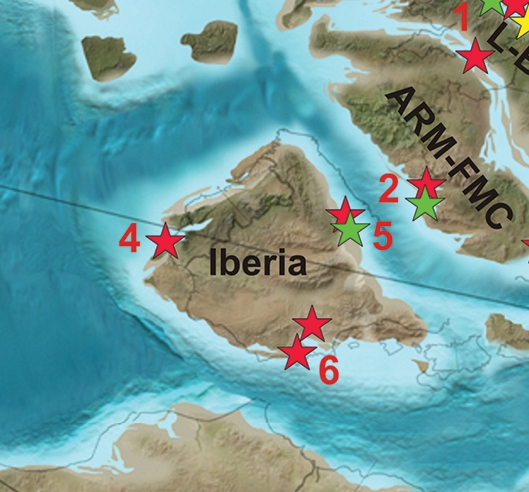 Iberia at earliest Cenomanian, ~ 100 Mya Cut out